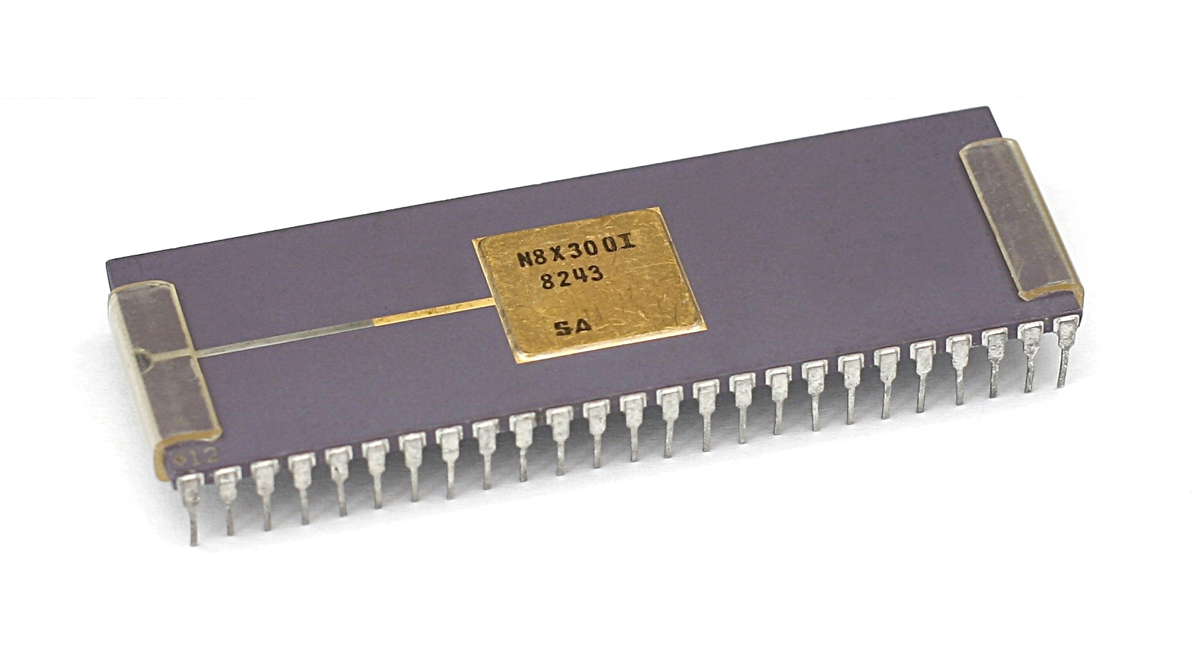 CPU Signetics N8X300I